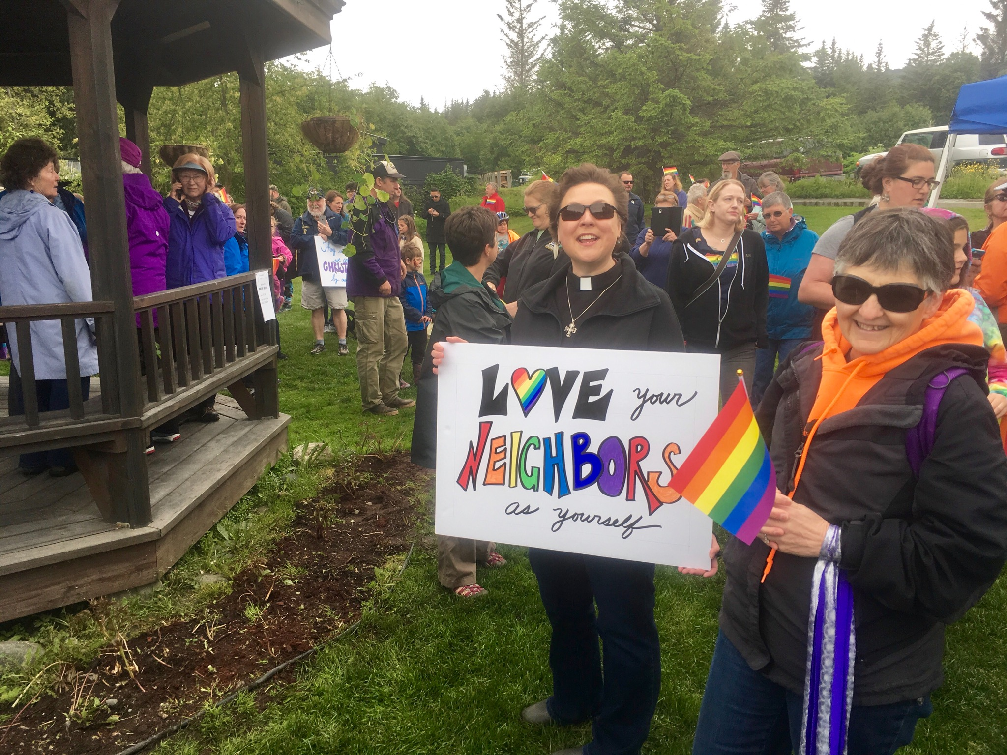 First ever LGBTQ Pride March ever held in Homer, AK